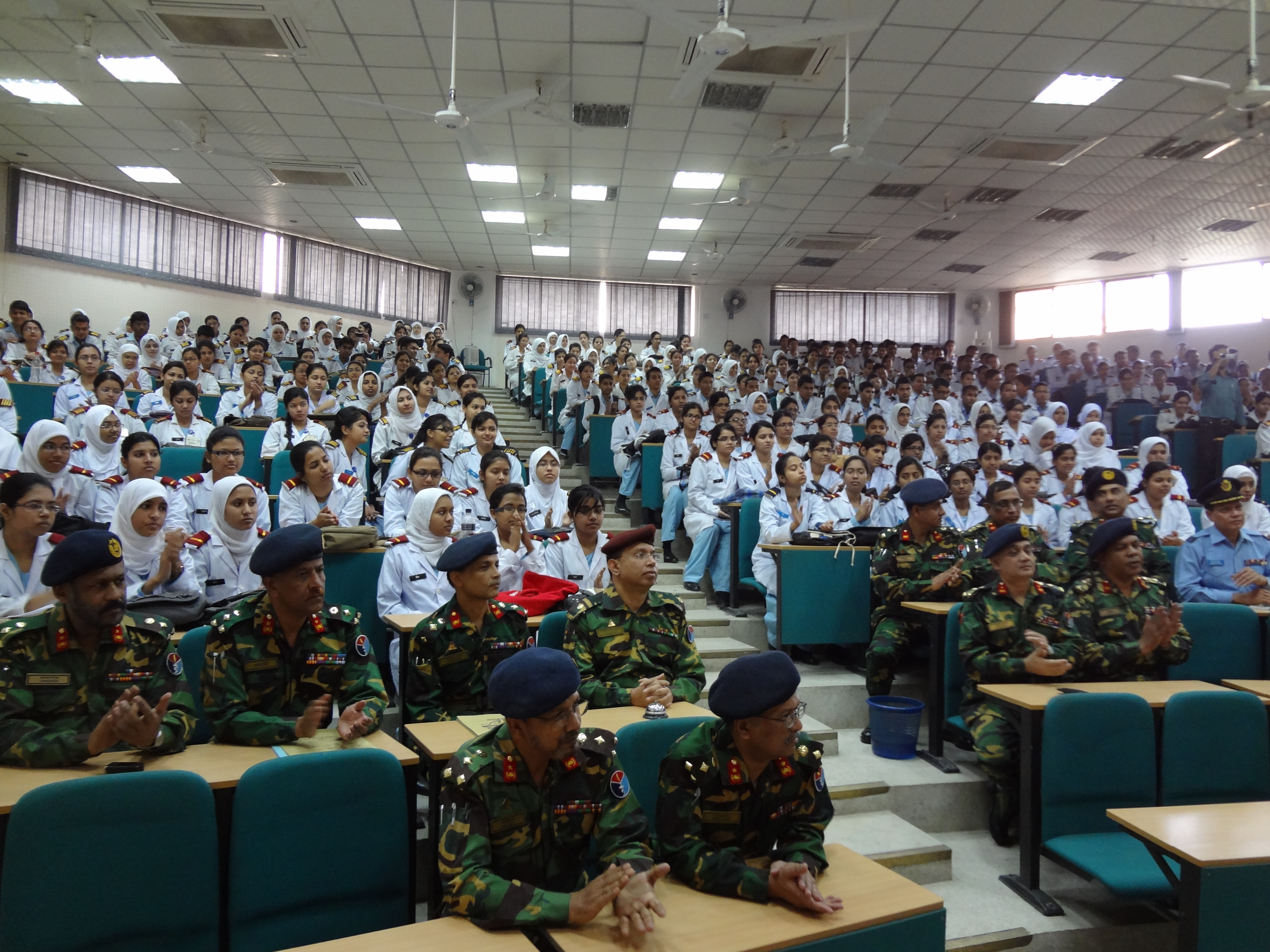 Medical Cadets in classroom